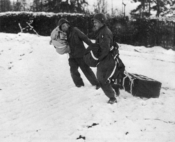 SUPPLY BY AIR. Medical supplies are dragged by hand from drop zone.